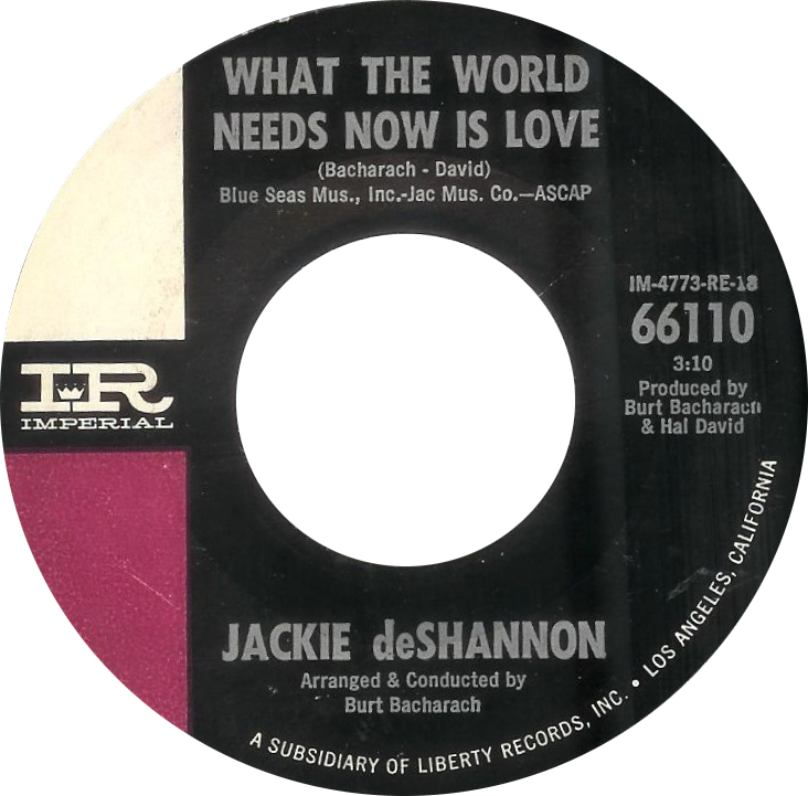 One of side-A labels of the original 1965 US single release of "What the World Needs Now Is Love" by Jackie deShannon